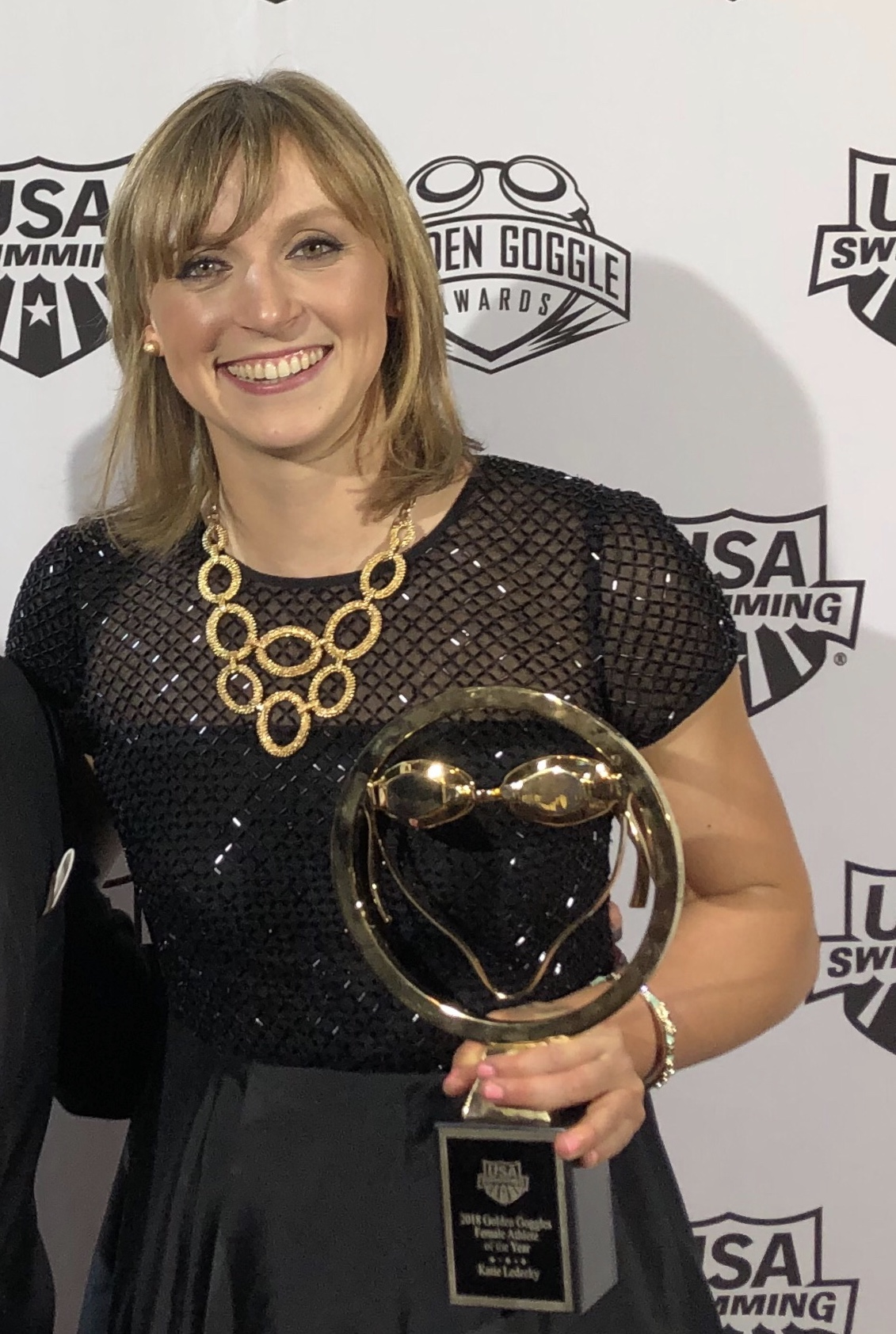 Katie Ledecky at the 2018 USA Swimming Golden Goggle Awards.